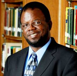 Image of Professor Massey